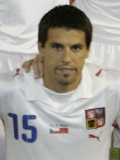 Milan Baros footballer photo